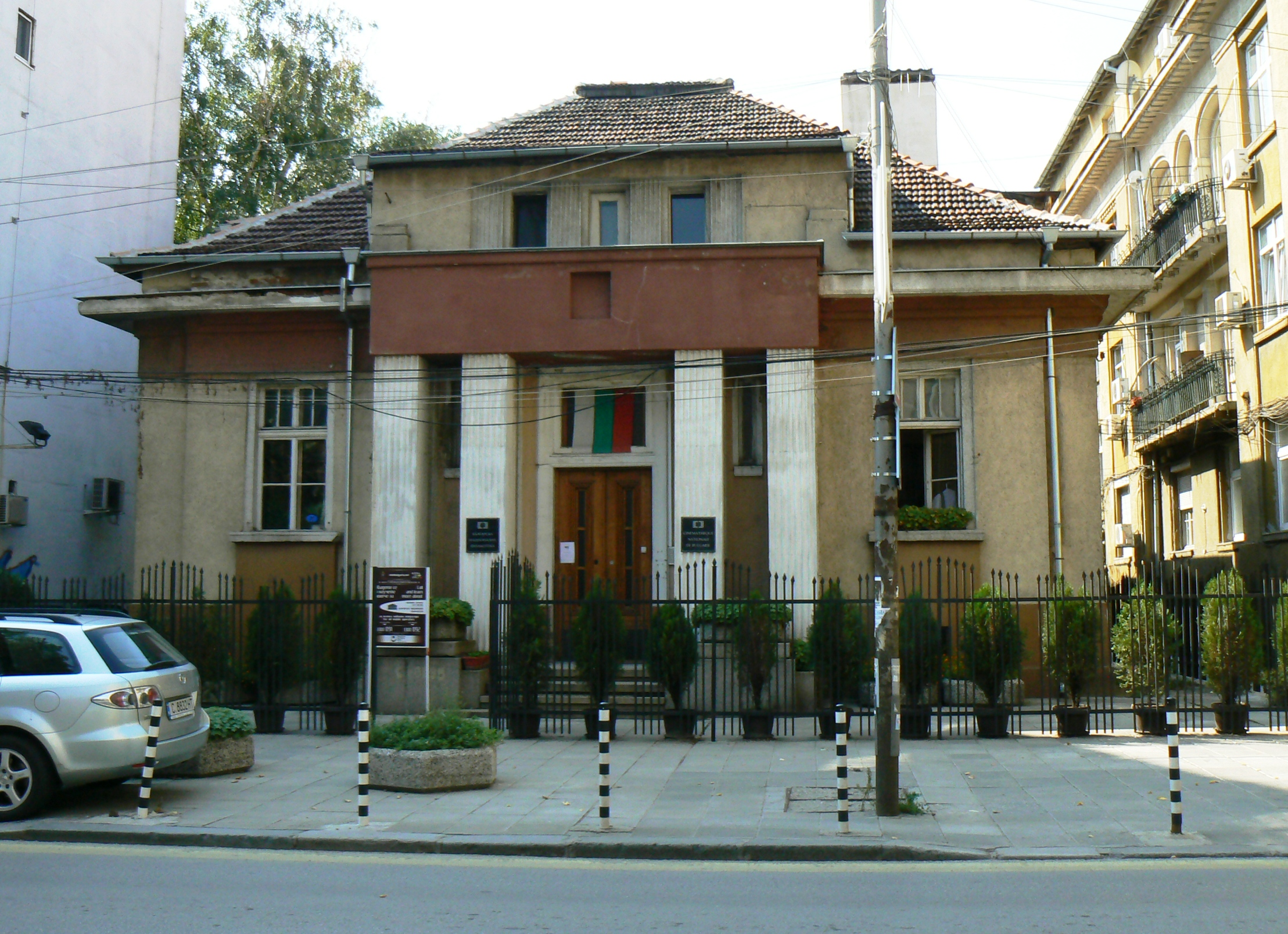 Building of the Bulgarian National Filmotheque in Sofia